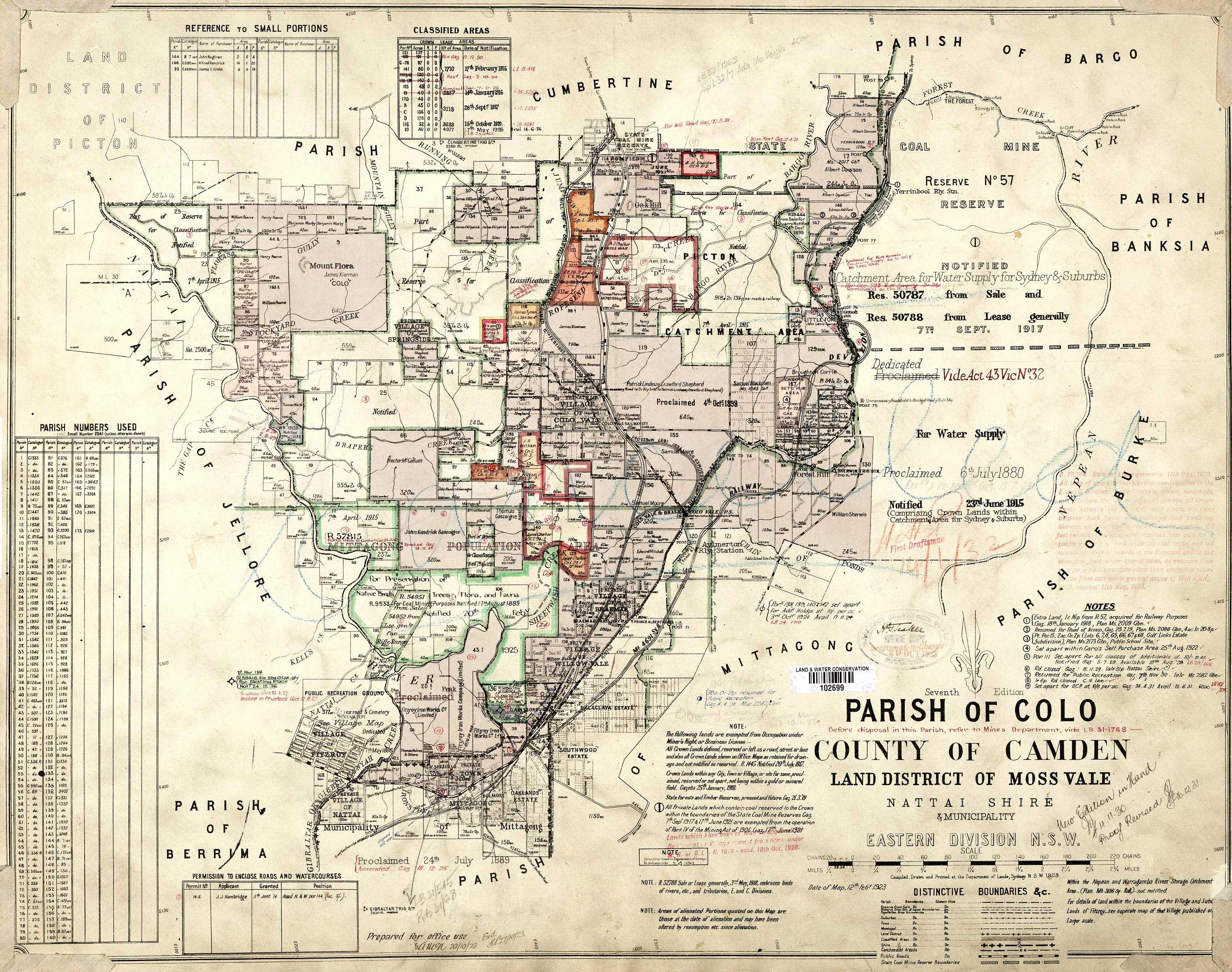 Map of the parish of Colo, County of Camden, New South Wales just to the north of Mittagong.